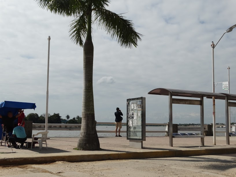 Minatitlan seaside